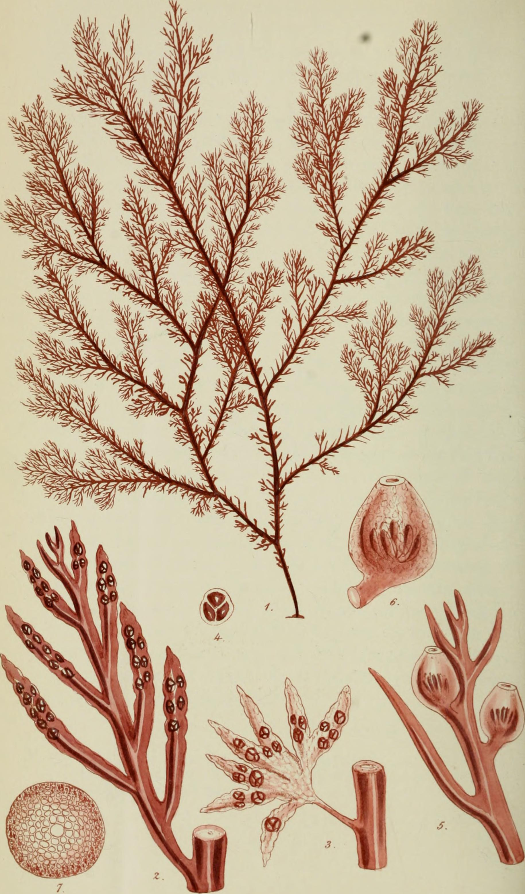 Title: Phycologia Britannica, or, A history of British sea-weeds : containing coloured figures, generic and specific characters, synonymes, and descriptions of all the species of algae inhabiting the shores of the British Islands Year: 1846 (1840s) Authors: Harvey, William H. (William Henry), 1811-1866 Harvey, William H. (William Henry), 1811-1866. History of British sea-weeds Subjects: Marine algae Publisher: London : Reeve Brothers Text Appearing Before Image: Tlat£. CCXXir. Text Appearing After Image: W.HH.ael etitk. U.B.&R imf Ser. Rhodosperme^. Fam. Rhodomelex. Plate CCLXIV. RHODOMELA SUBFUSCA, J^. Gen. Char. Fiwul filiform, solid, much branched, inarticulate, reticulated;the axis composed of concentric layers of oblong, hyaline cells; theperiphery of several rows of minute, irregular, coloured cellules.Fructijicaiion, 1, ovate capsules (cercuiddia), containing a tuft of pear-shaped spores; 2, tetraspores immersed in swollen ramuli, or con-tained in proper pod-like receptacles (stichidia) in a single or doublerow. Rhodomela (Ag.),—from pobeos, red, and /xeXa?, black; becausethe species usually become darker in drying. Rhodomela subfusca ; frond filiform, much branched; the branches irre-gularly divided, clothed with pinnated branchlets, and subulate, simplescattered or fasciculate ramuli; pinnules subulate; tetraspores con-tained either in the somewhat swollen ultimate ramuli (in smnmer),or in proper branching stichidia (produced in winter). EnoDOMELA subfusca. Ag. Sp. Alg.